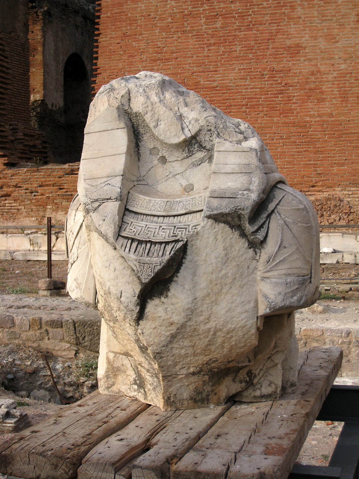 An Egyptianised atlantid from the Red Basilica, Pergamon